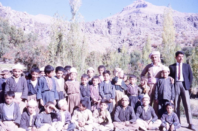 Pendro elementary school in 1968.Teachers and students Kurdî: ماموستاو قوتابیەکانی قوتابخانەی سەرەتای گوندی پیندرو لە سالی ١٩٦٨